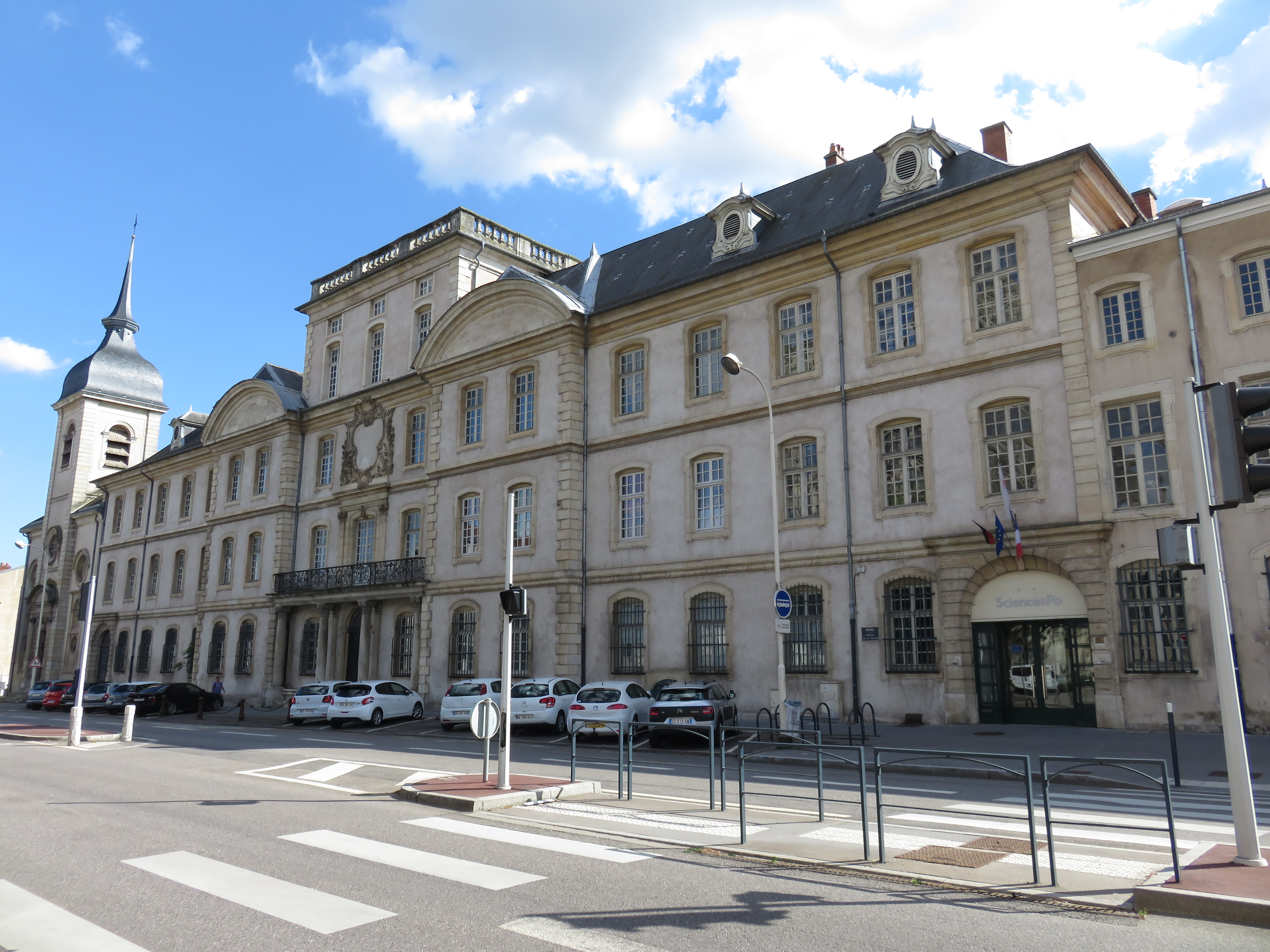 Sciences Po (Paris Institute of Political Studies) in Nancy, France in 2018